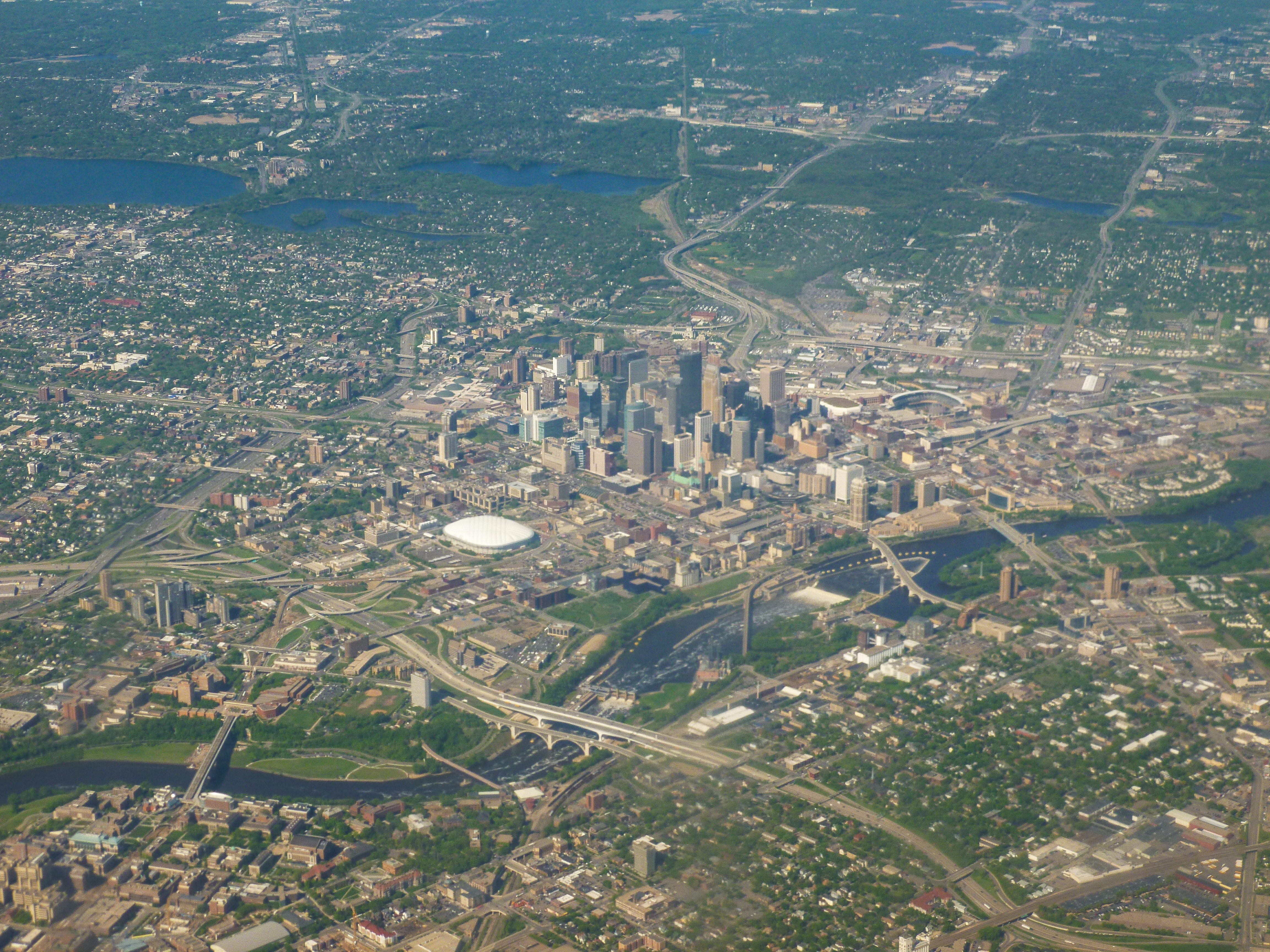 Airplane photograph of downtown Minneapolis, Minnesota.